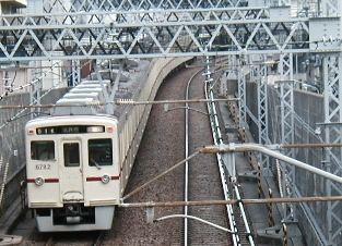 I don't understund English. I can use Japanese only. Sorry. Date taken（撮影日） 2002/9/23 Taken human（撮影者） Ichikawa Taichi （user:市川太一） Place of photo（撮影地） 大島～東大島 Description（内容） 6732F最後まで旧塗装で残った編成 Cropped（トリミング） Released to Public Domain so all free to use.